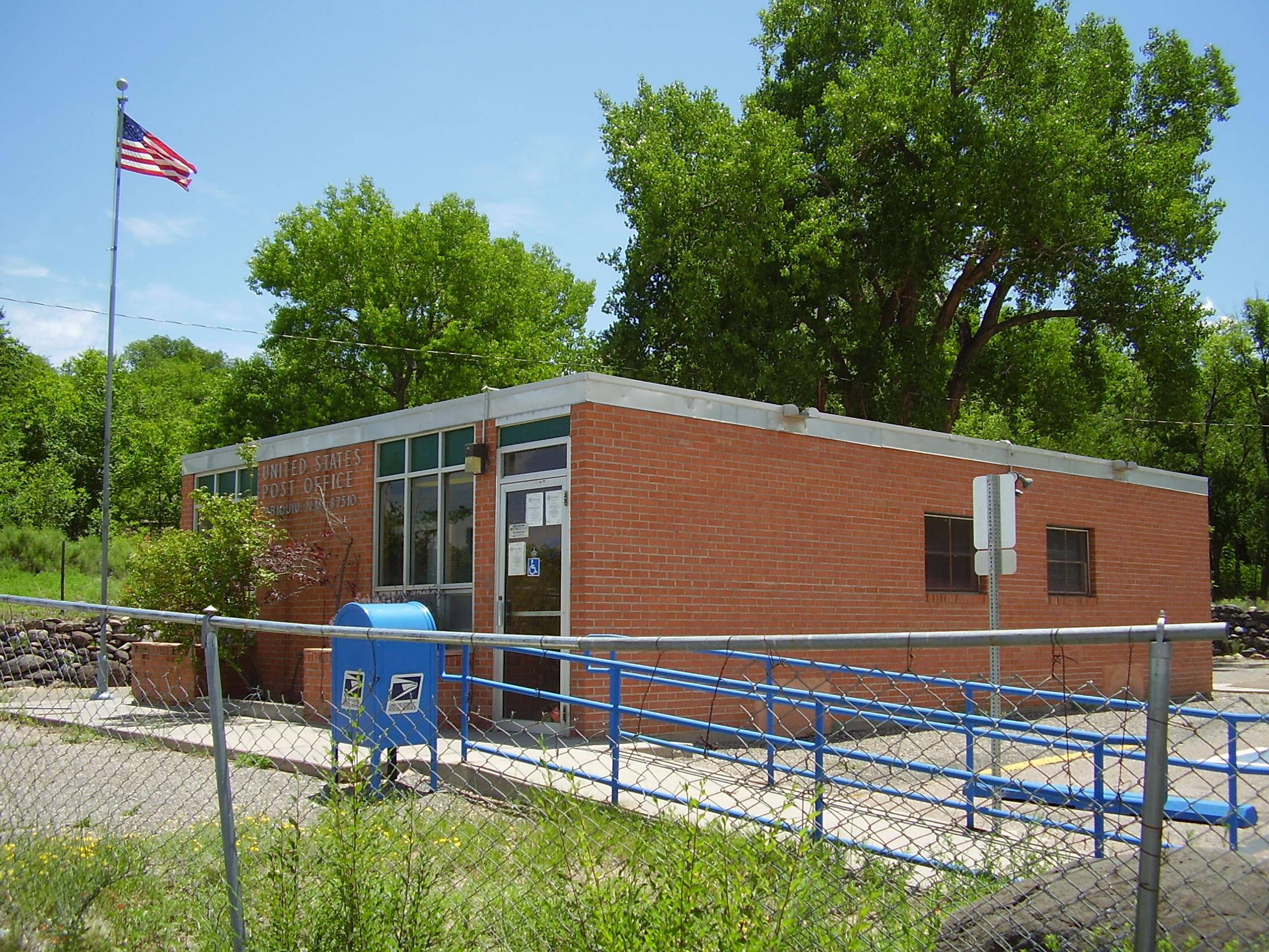 Post office of Abiquiú in Rio Arriba County, New Mexico